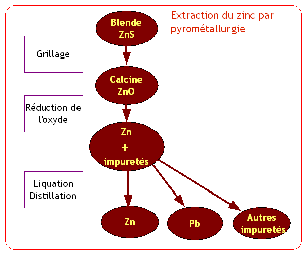 Synoptique of zinc production by pyrometallurgy route